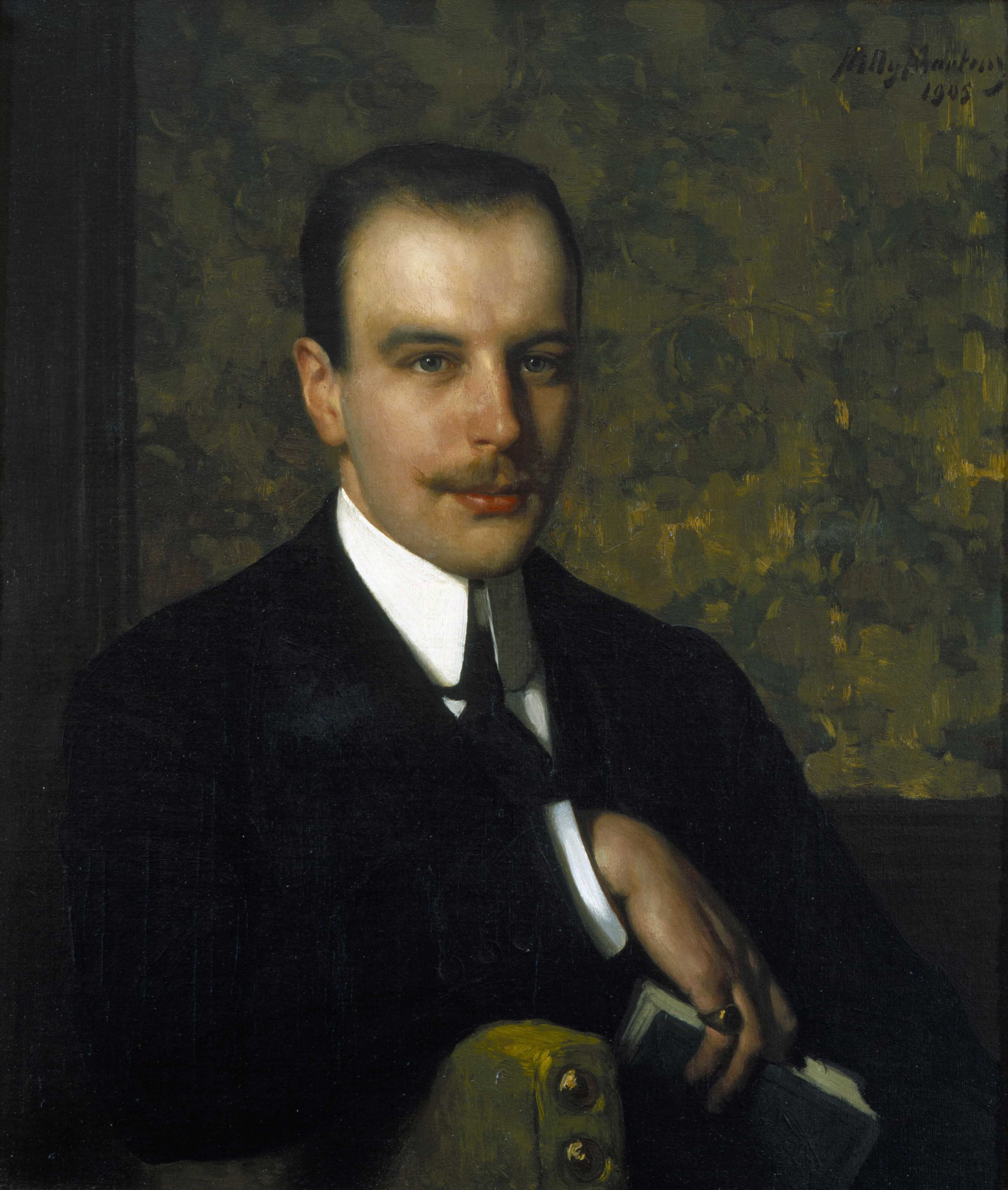 Constant Willem Lunsingh Scheurleer (1881-1941) painted in 1905 by Willem Martens (1856-1927)